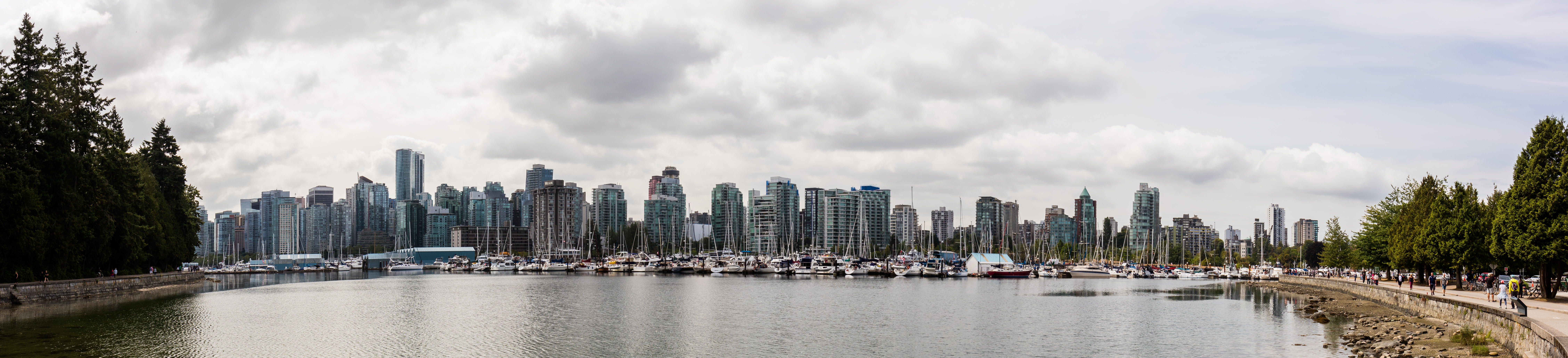 View of Vancouver from Stanley Park, Canada